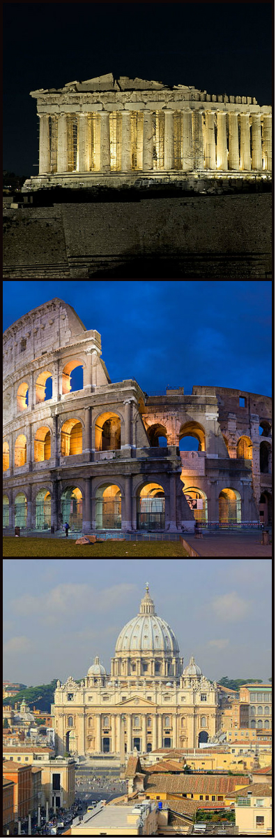 The Western civilization elements Ancient Greece Ancient Rome Christianity